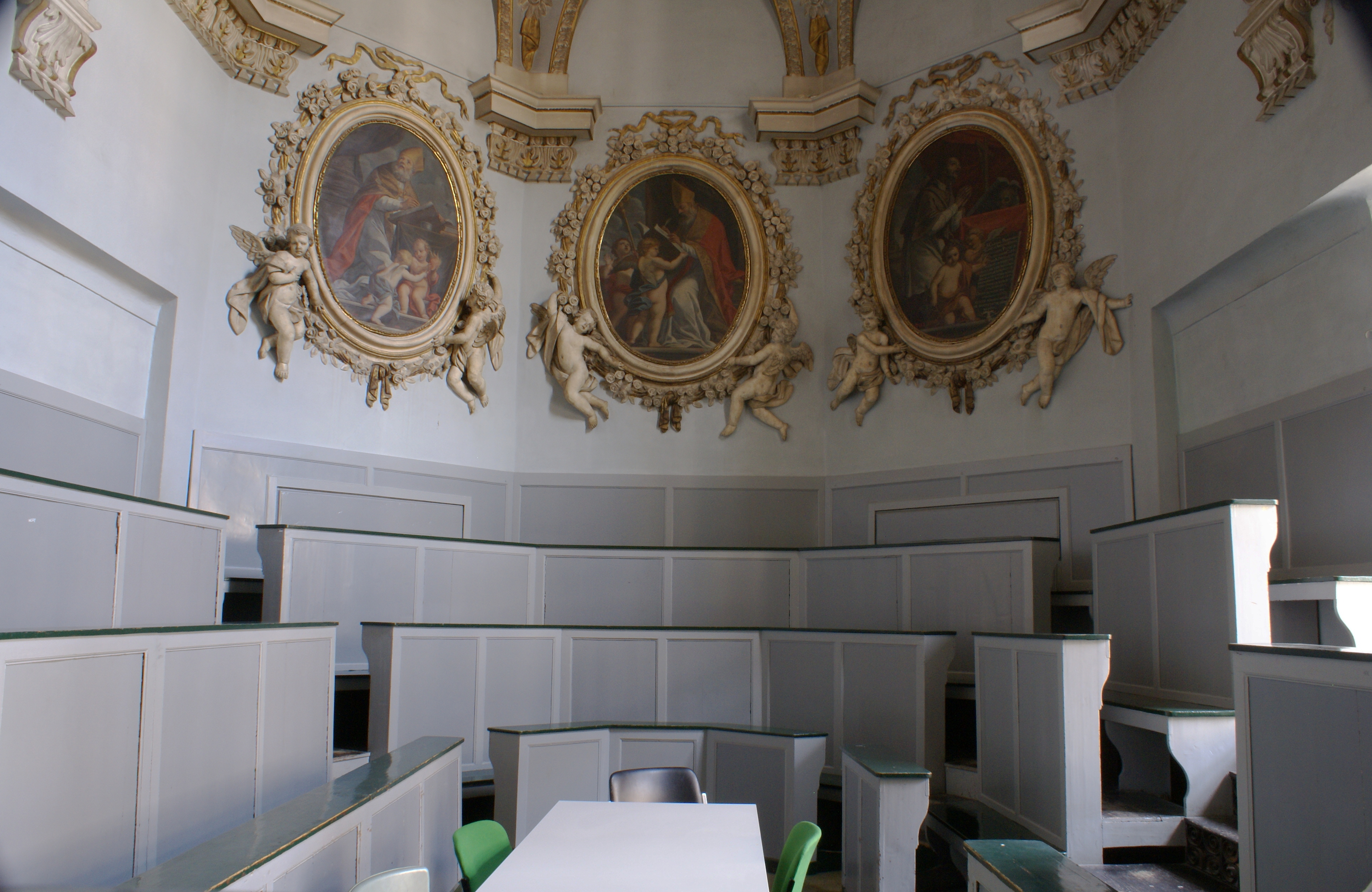 The University of Macerata's (Wikipedia: University of Macerata) "Aula C. Mortati", one of the lecture halls.